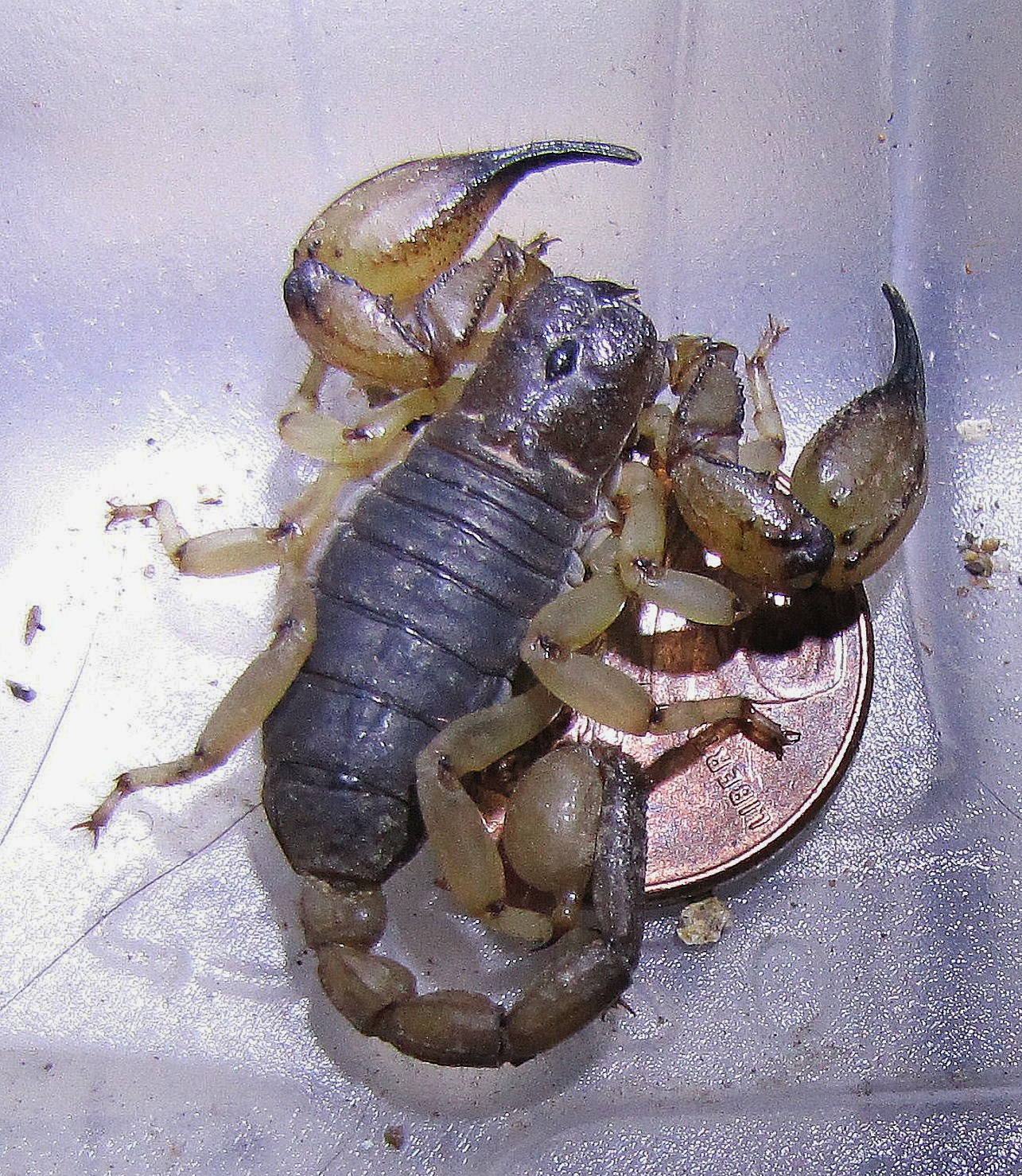 Anuroctonus pococki (California swollenstinger scorpion) under blacklight Location: Near Santiago Oaks Park, Orange, CA